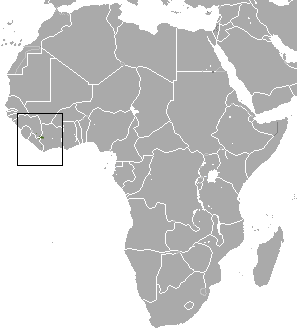 Nimba Otter Shrew (Micropotamogale lamottei) range